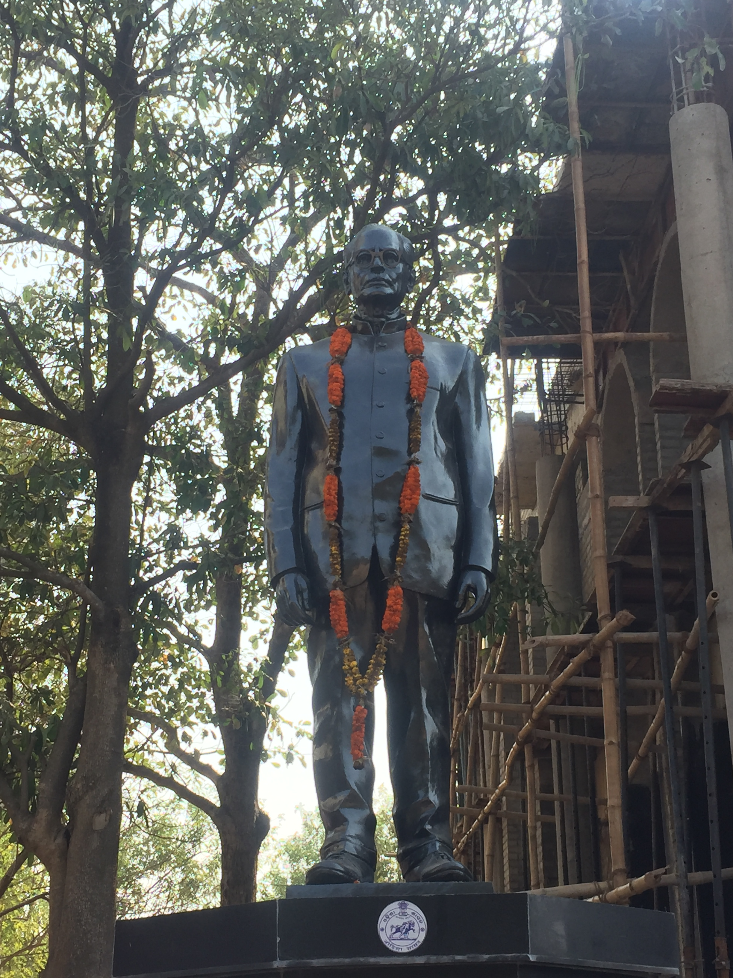 Statue of Dr. Prana Krushna Parija in Utkal University.